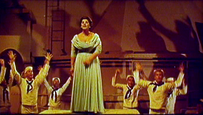 Screenshot from the trailer for the 1955 film, "Hit The Deck", showing Kay Armen.